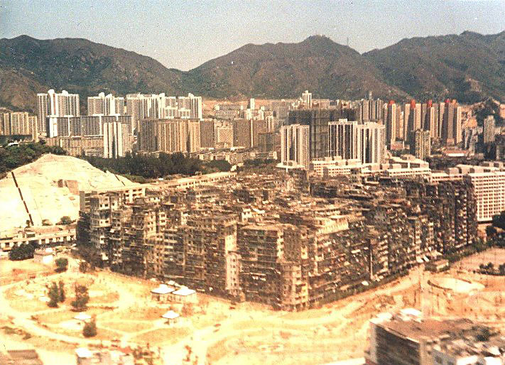 Kowloon Walled City, Hong Kong, being dismanteled, that I photographed from an aeroplane 1989-03-27